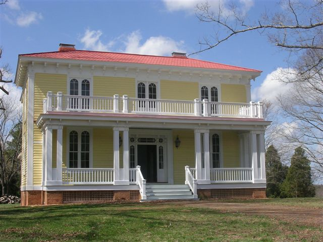 View of the house at Annefield in Charlotte county, Virginia.